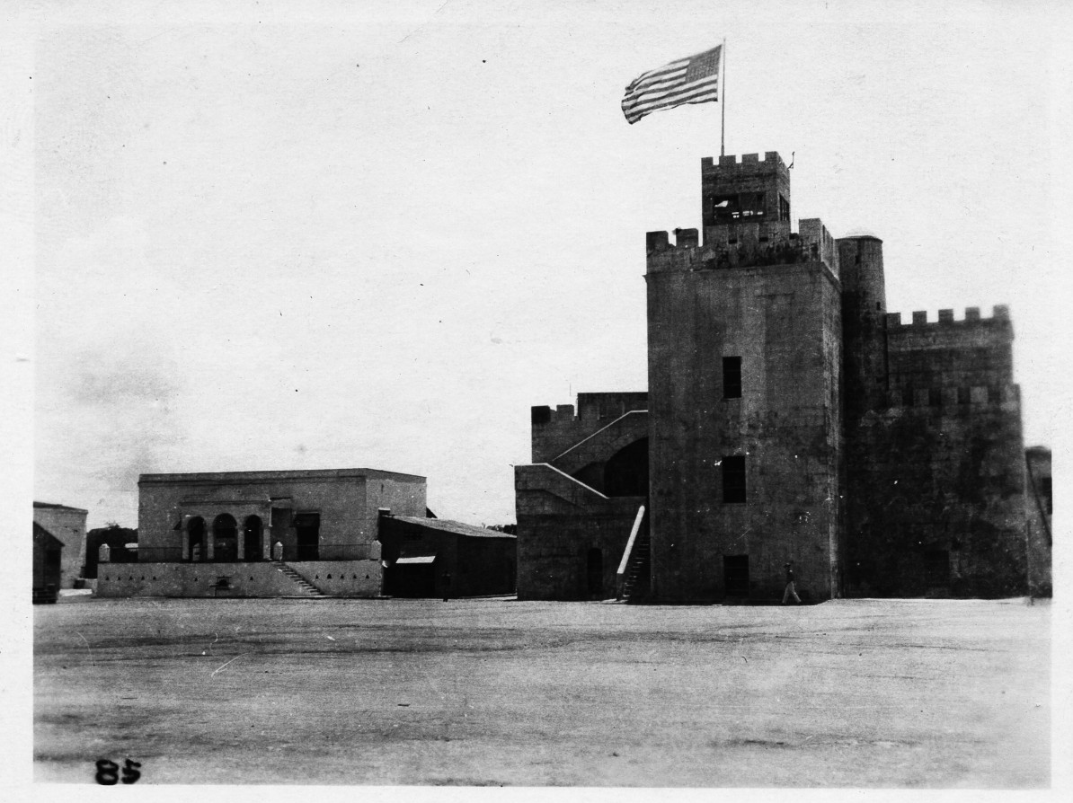 Fort Ozama (Fortaleza Ozama at the mouth of the Ozama river) was built by the Spanish 1502-08 from blocks of coral. Oldest fort in the Americas. The flags that have flown over this fort are: Spain, England, France, Colombia, Haiti and the United States. The main entrance to this fort has doors made of solid African ebony from 1787.